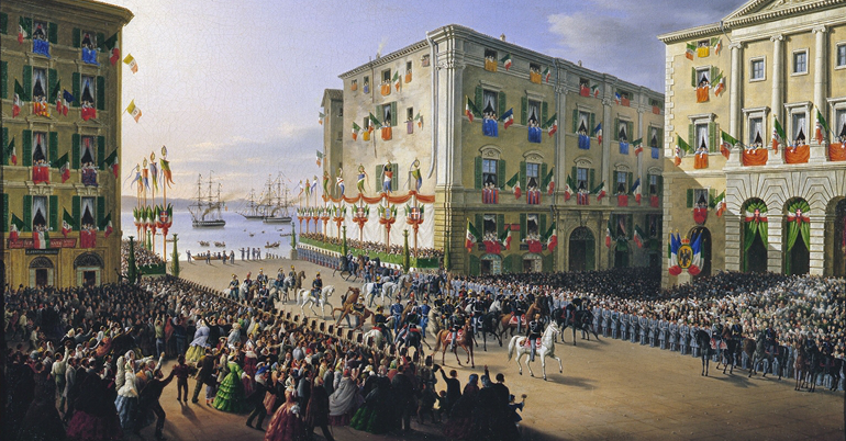 Official entrance of king Victor Emmanuel II in Ancona, 1860